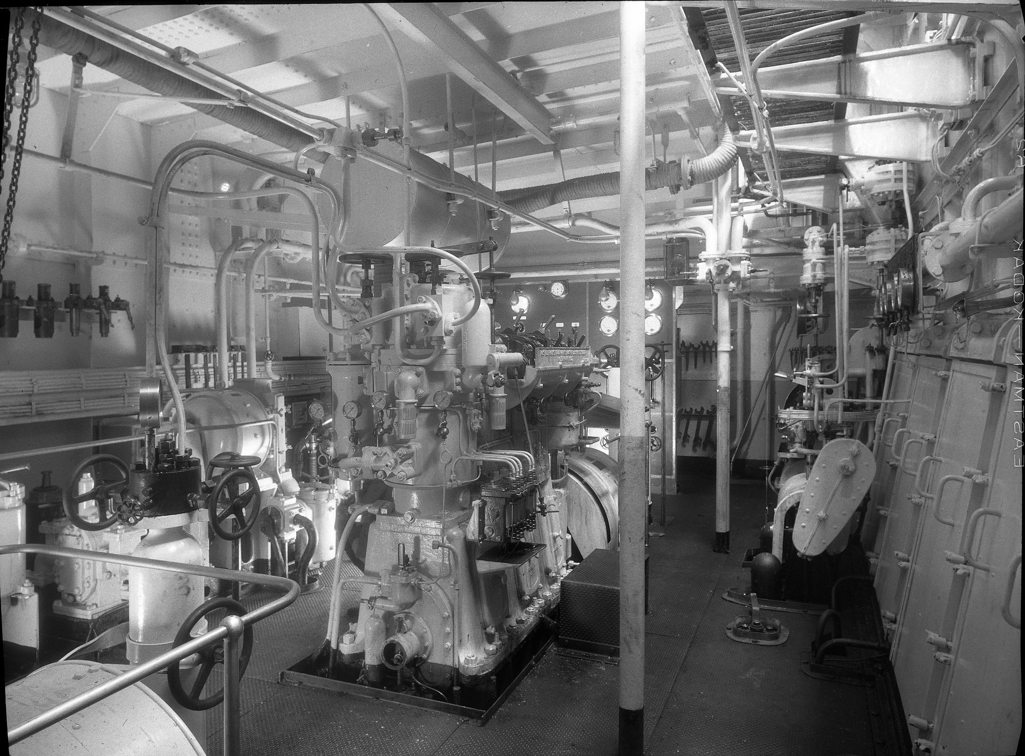 MV Nimbin's Engine Room when built